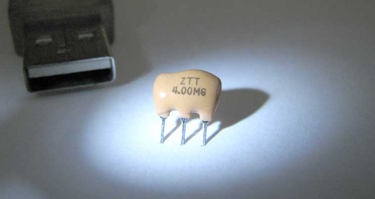 A 4Mhz Ceramic Resonator, sown next to a USB plug for scale